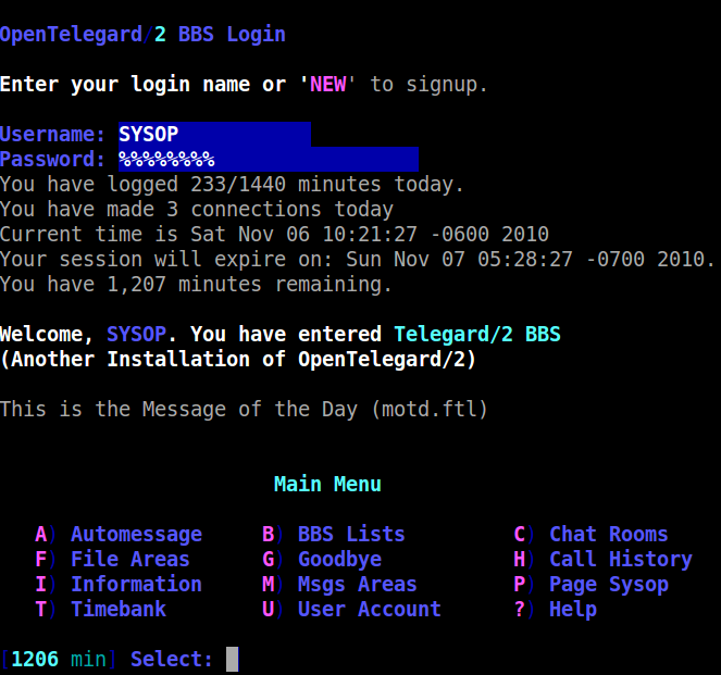 OpenTelegard/2 Screenshot of Login Prompt and Main Menu